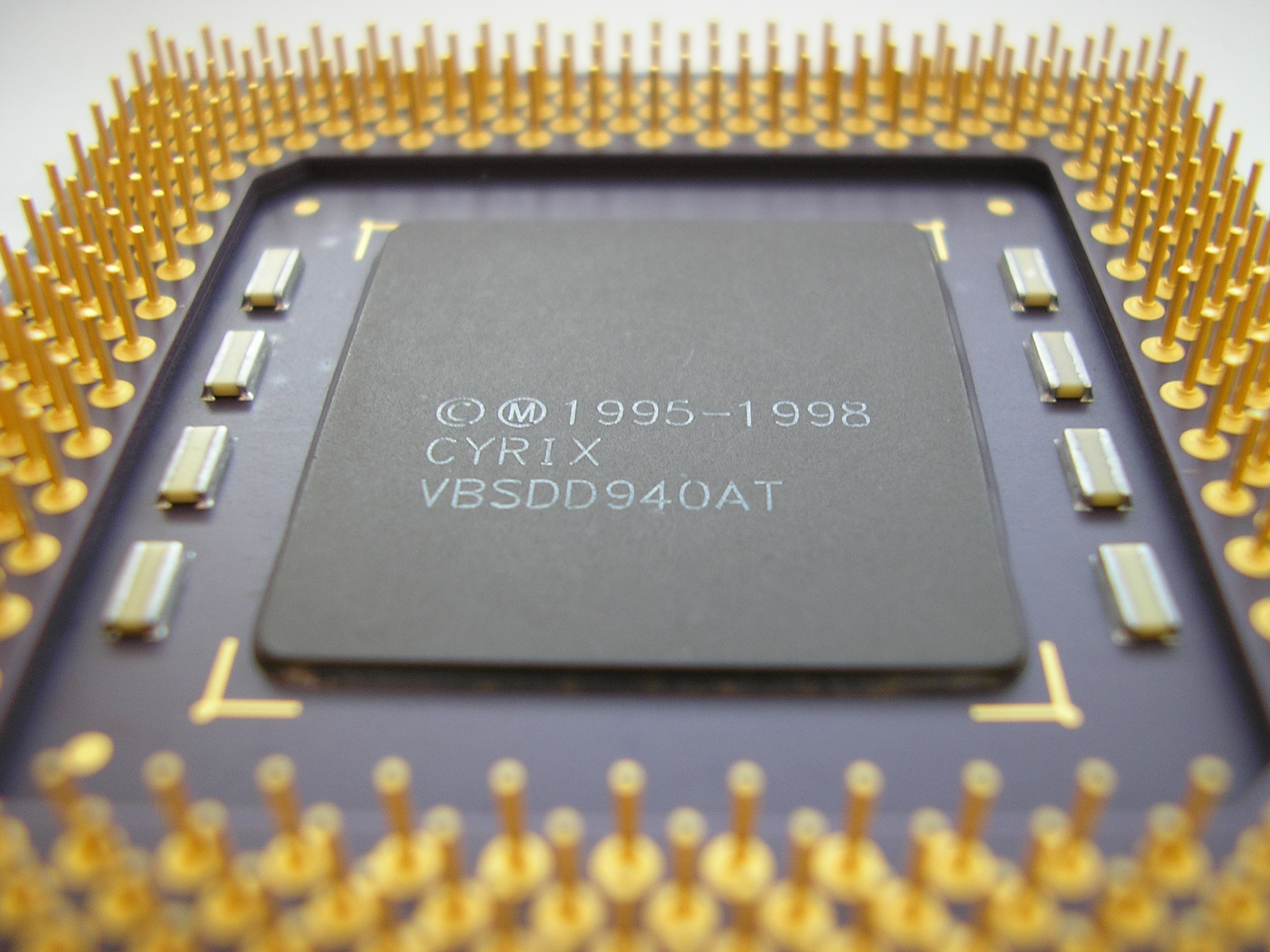 Cyrix M II - 433GP alias: MII-433GP MIIv-433GP 300MHz (100MHz bus x 3) 1998 Family 6, Model 0, Stepping 1